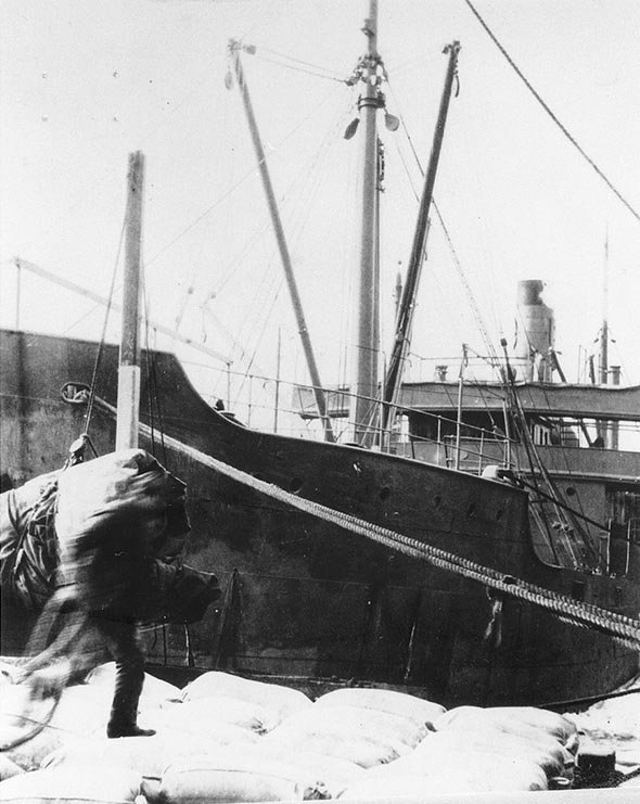 SS Evelyn moored pierside, circa 1917-18, place unknown. Removed caption read: Photo # NH 102439 S.S. Evelyn in port, circa 13174-1918. She was later USS Asterion From the collections of the US Naval Historical Center